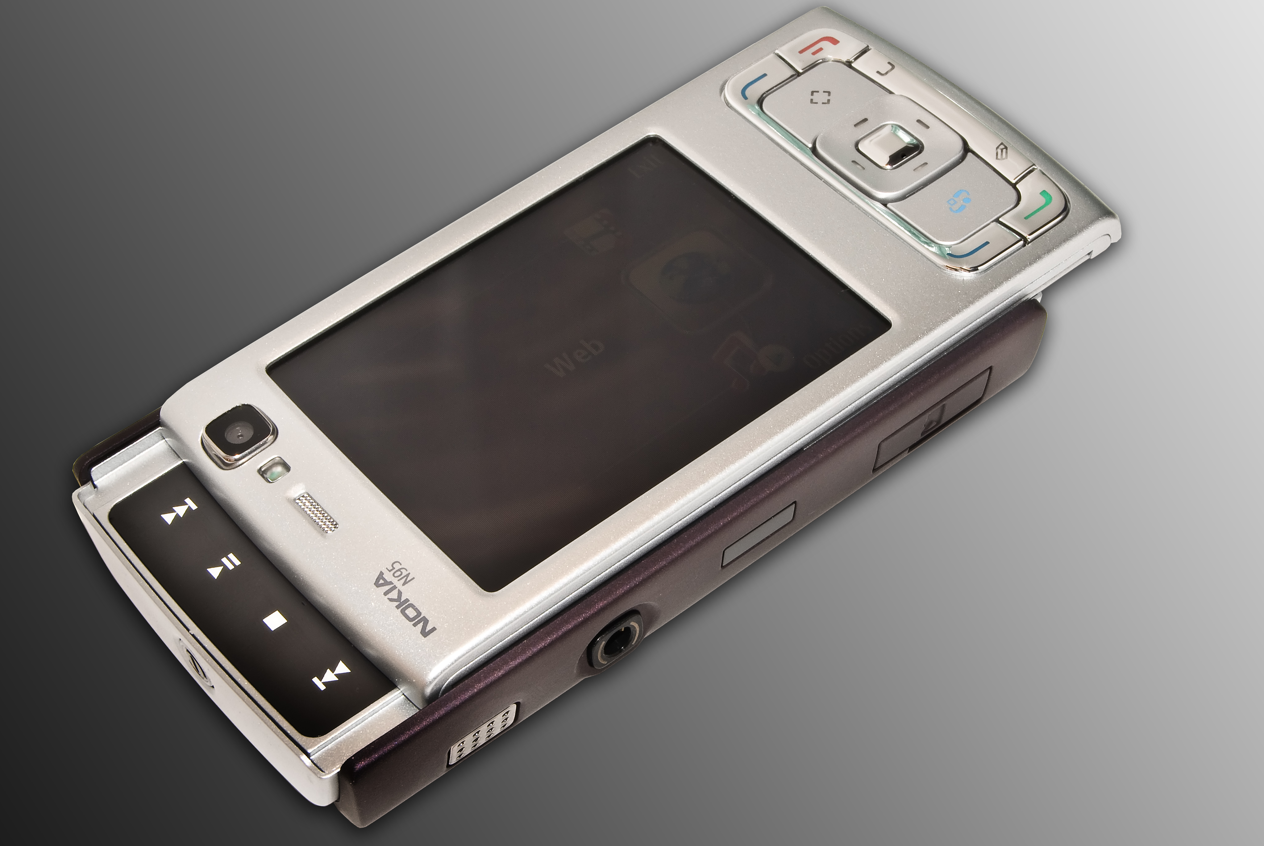 Image showing the Nokia N95's dedicated media keys.